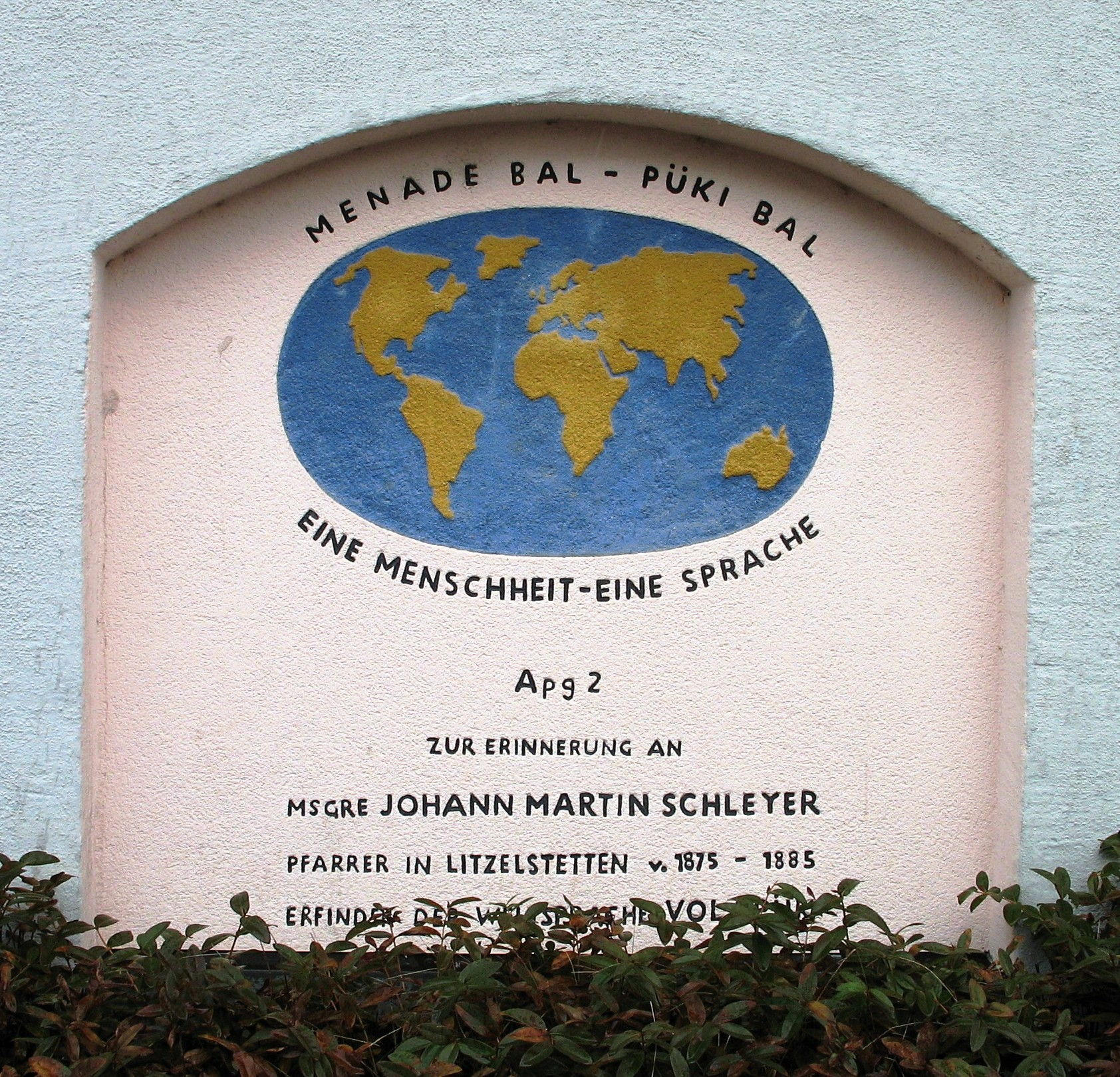 Commemorative inscription for Johann Martin Schleyer, inventor of Volapük, at the rectory of Litzelstetten, near Konstanz, Germany. Inscription in Volapük and